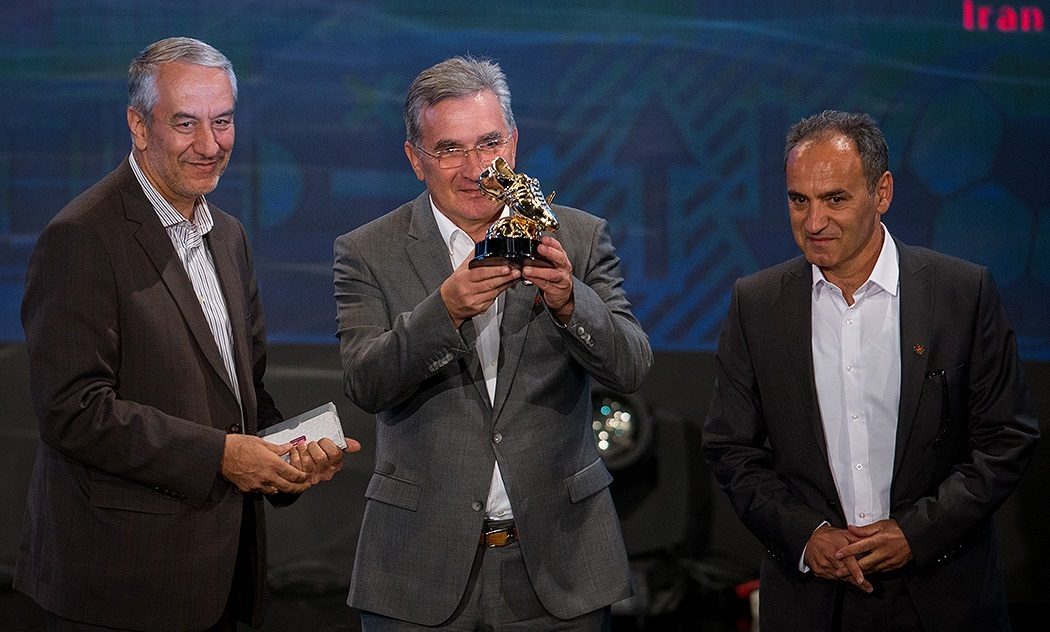 Branko Ivanković at IFF's annual awards ceremony